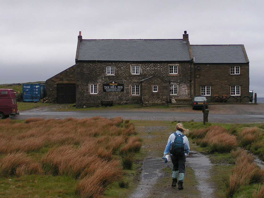 Tan Hill Inn, North Yorkshire